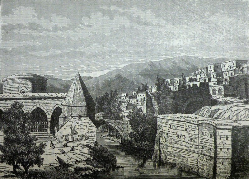 An engraving of the town of Bitlis from H A Eprigian's Illustrated Indegenous Dictionary, 1900